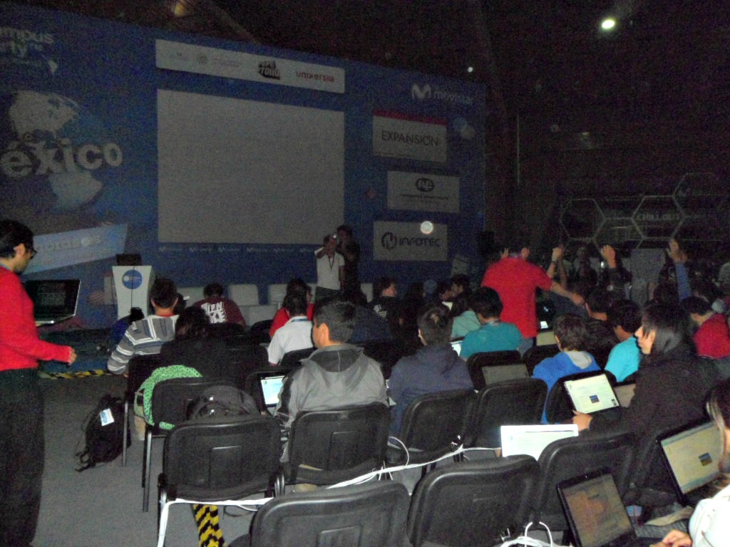 WikiWars en Campus Party